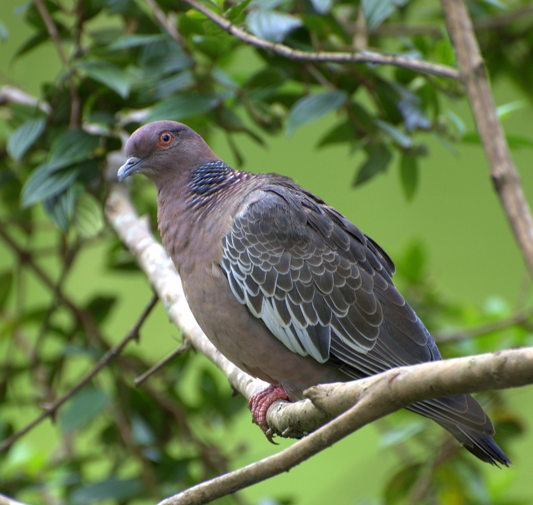 Picazuro Pigeon (Patagioenas picazuro). Zoo São Paulo Botanic (Brazil).